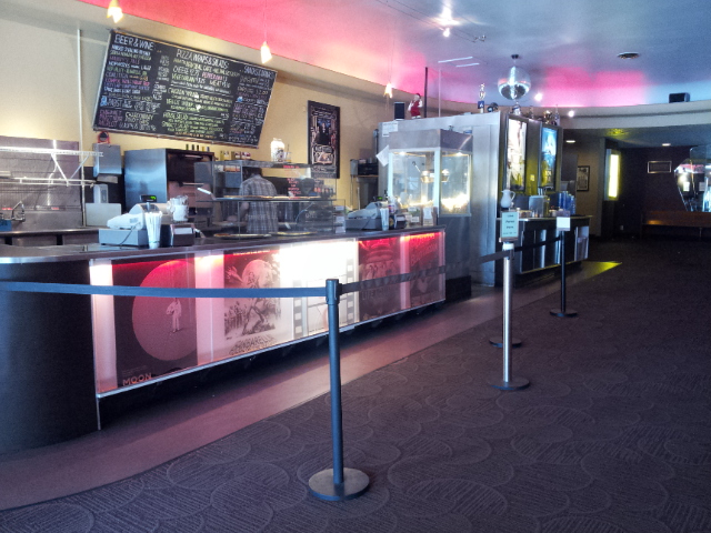 Laurehurst Theater, Portland, Oregon (2013)